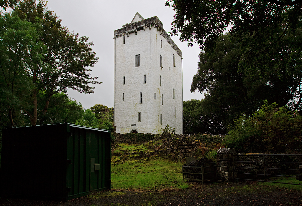 Castles of Connacht: Ardamullivan, Galway This restored tower house of six storeys stands on a narrow rock outcrop above woodland at the end of a laneway off the main N18 road. There is no date for when it was built, but in 1579 it was the cause of the deaths of Dermot O'Shaughnessy and his nephew John, who fought and killed each other in a dispute over possession of the castle.